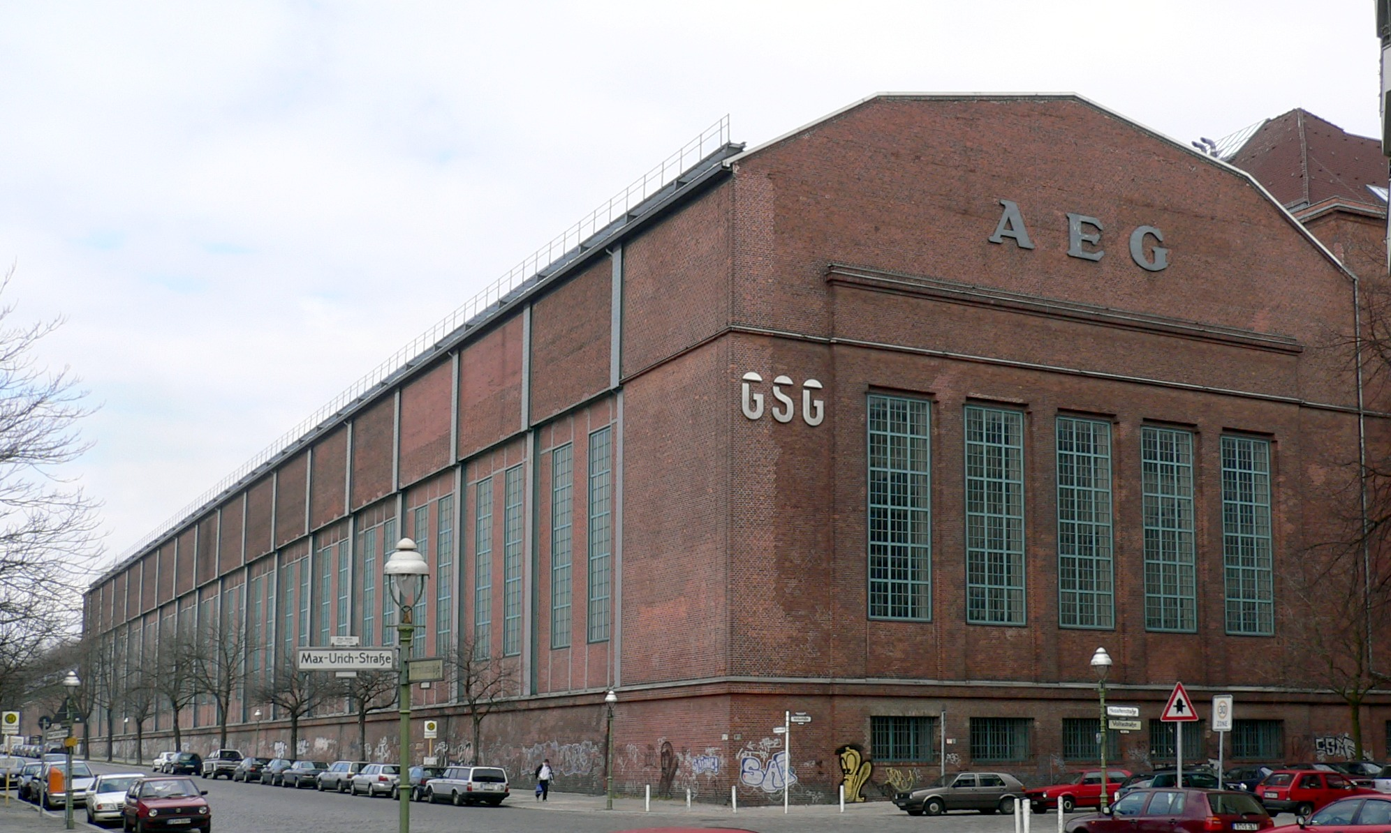 AEG premises, Montagehalle für Großmaschinen, architect Peter Behrens, build 1912 Quelle / Source selbst fotografiert / taken by myself Datum der Aufnahme / Time of creation 2006-04-07 Fotograf / Photographer Georg Slickers Bearbeitung / edits beschnitten, entzerrt / cropped, enhanced